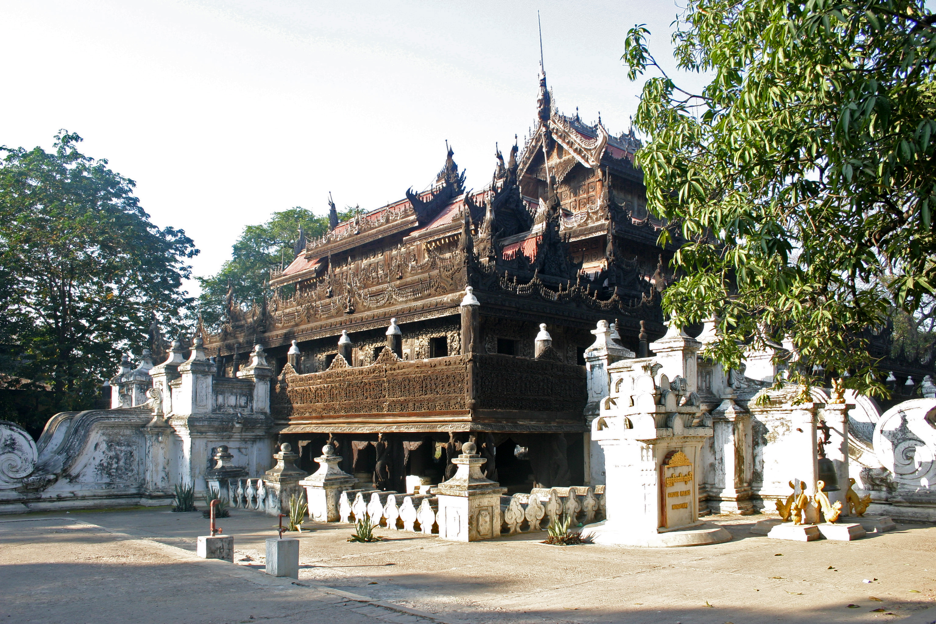 Shwenandaw Monastery in Mandalay in Myanmar.